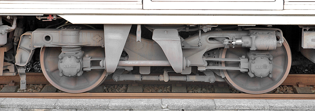 Sumitomo Metal Industries type FS379 bogie truck of Nankai 6300 series EMU ( Moha 6371 )